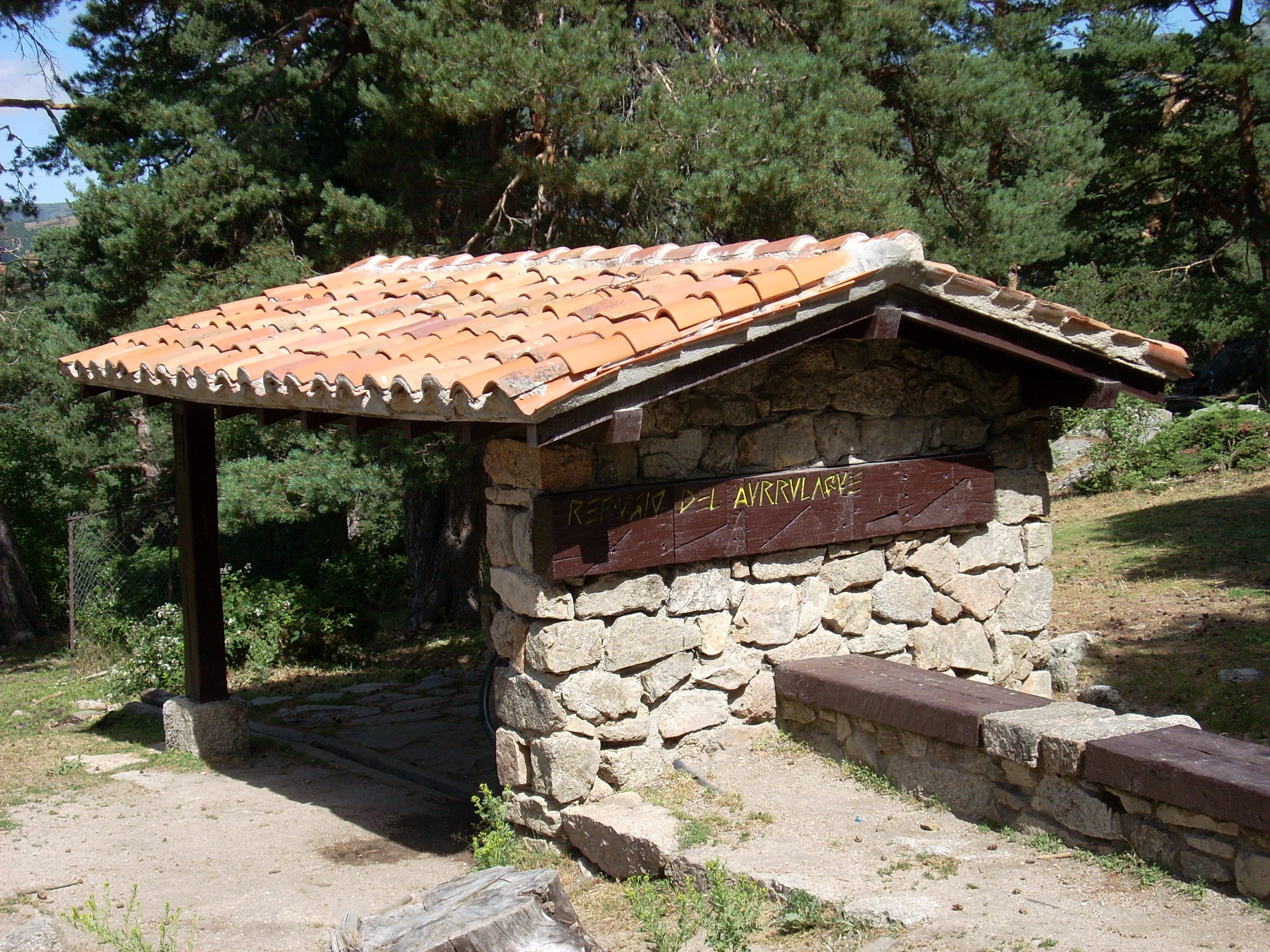 Refugio del Aurraluque, near Cercedilla, Madrid